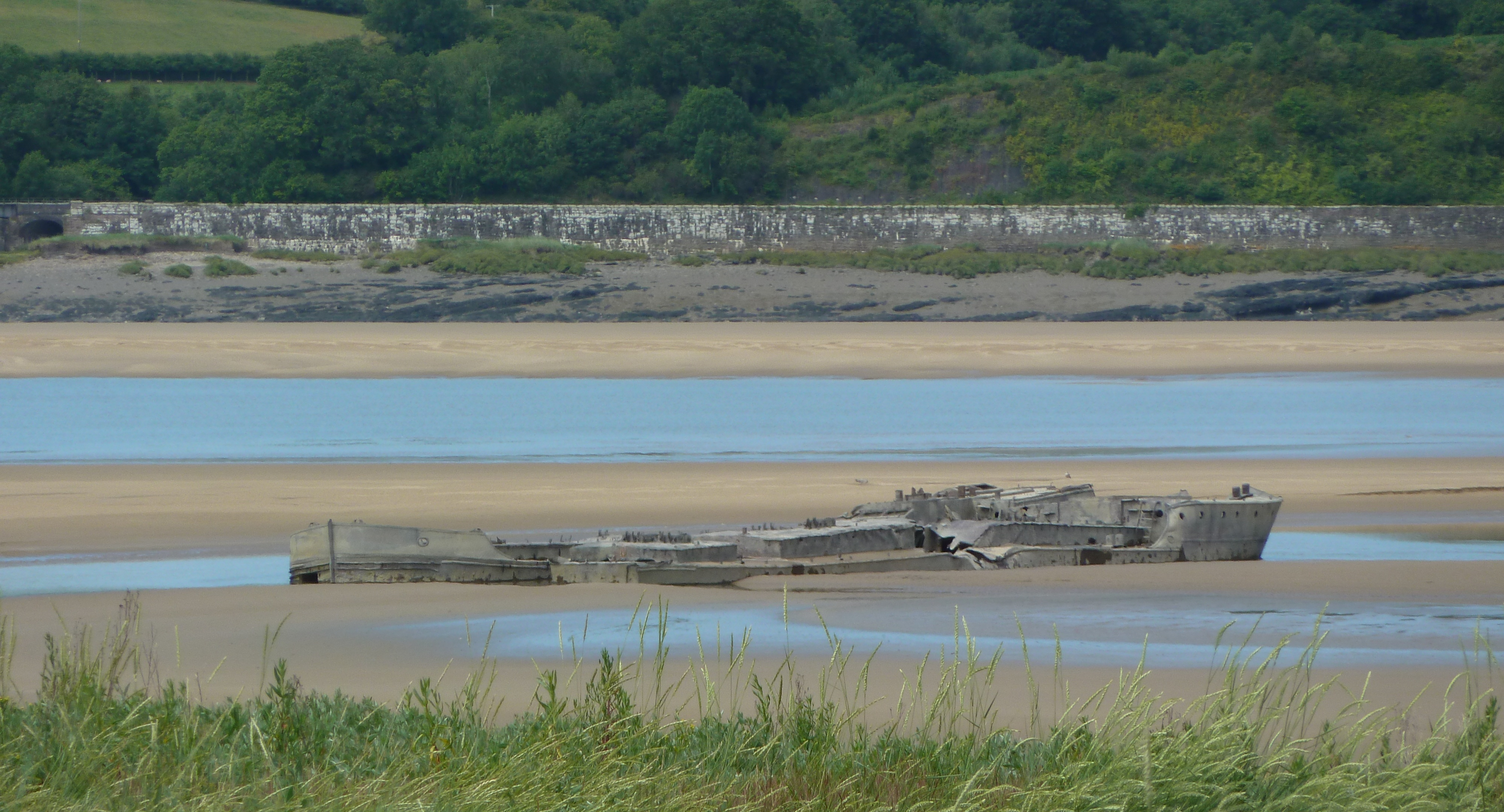 Wrecks of the Arkendale H (bows, left), and the Wastdale H (stern with portholes, right), the two barges that collided with the Severn Railway Bridge in 1960. Photographed from alongside the bridge tower, near Sharpness, Gloucestershire.